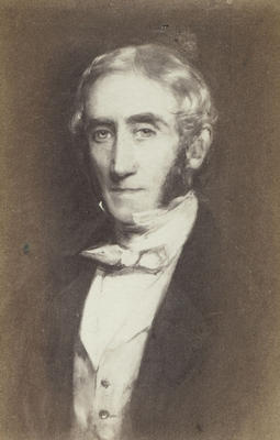 A Thomas Annan photograph of a portrait of Sir John Maxwell, 8th Bart of Pollok (1791-1865). The painting was by James R Swinton.